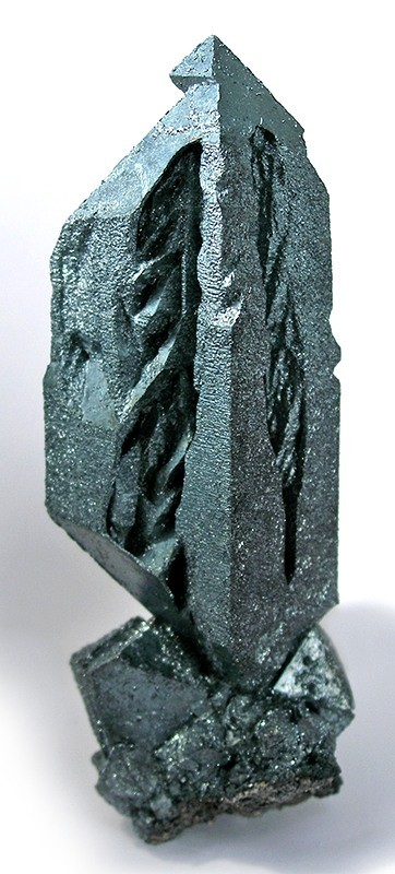 Hematite, Magnetite Locality: Payún volcano, Altiplano de Payún Matru, Mendoza, Argentina (Locality at ) Size: 8.3 x 3.1 x 2.3 cm. This one, for the size, floored me as one of the most elegant examples. A cluster of small octahedrons of lustrous , dark metallic hematite after magnetite forms the base for an elongated, hoppered crystal measuring 6.25 cm in length, which is crowned by a tiny octahedron. Stark and beautiful contrast of different crystal forms of the same material on the same piece making for a really nuanced whole! This is a pristine floater, complete all around, with better lustre in person than appears here.